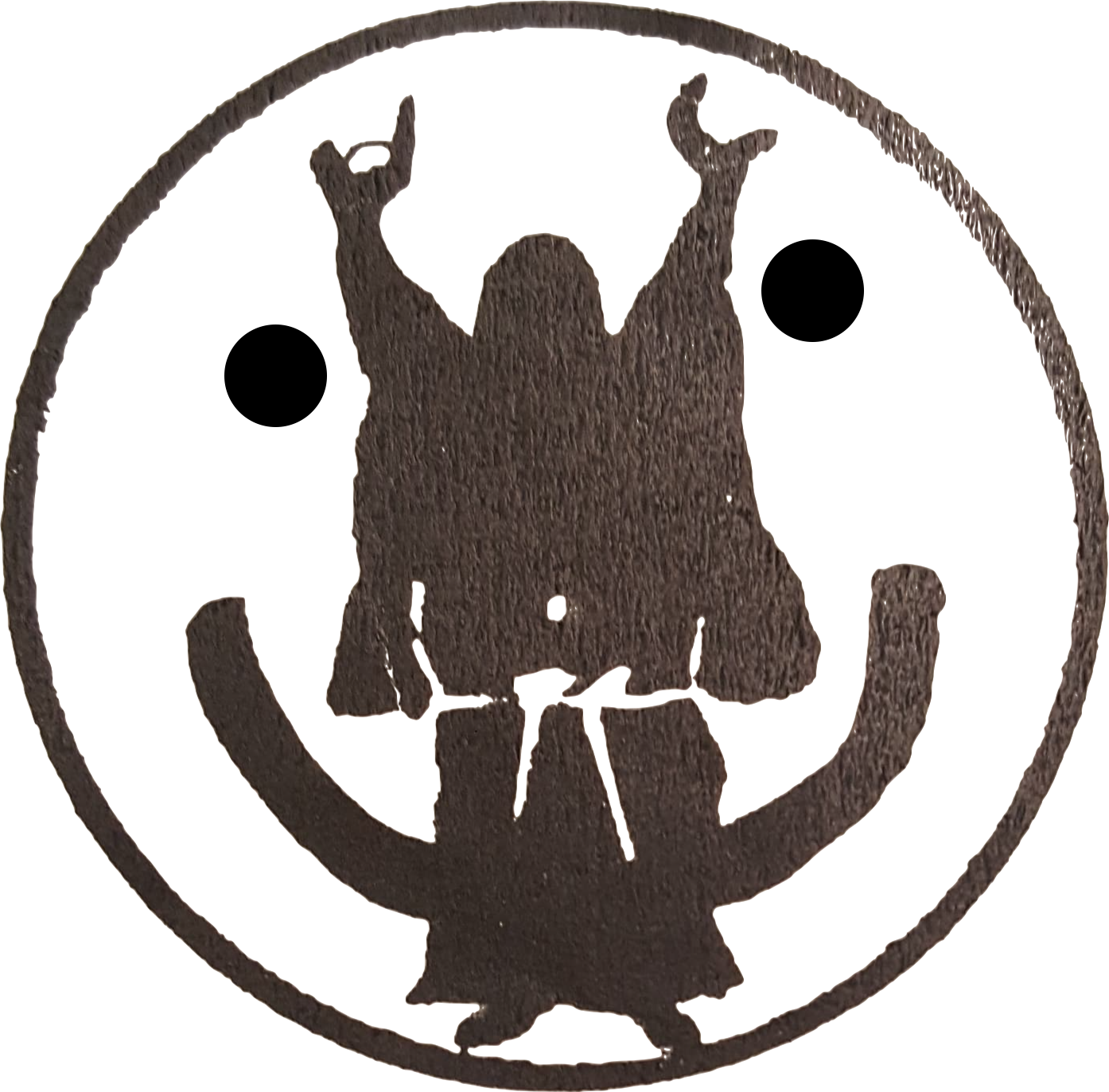 From the Yale Manuscripts and Archives Library Collection on the History of the Pundits